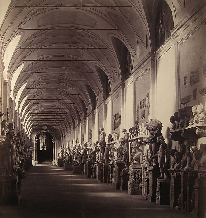 Robert MacPherson (1811-1872) - Rome - The Chiaramonti Museum, one among the Vatican Museums.